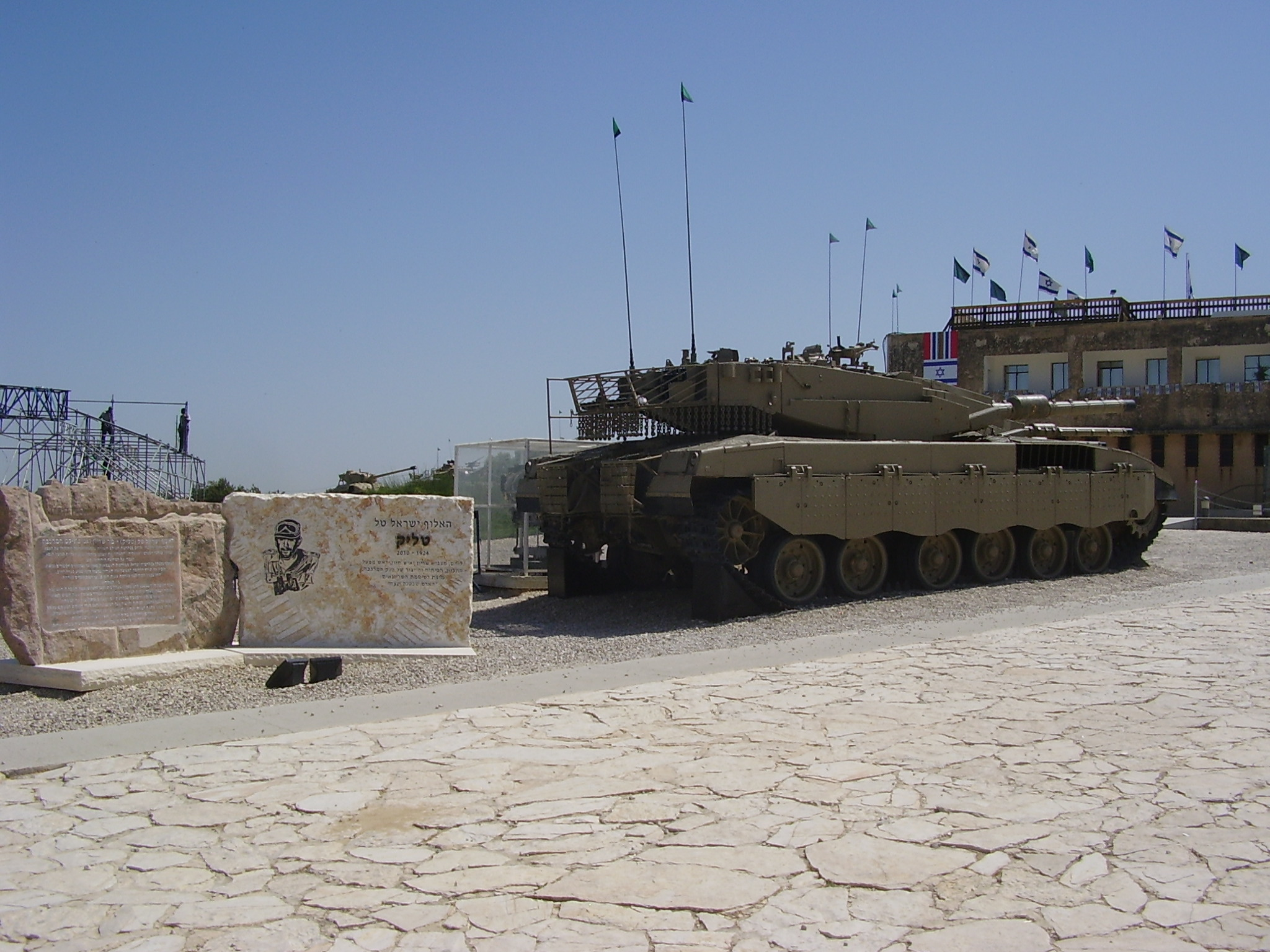 Merkava tank and memorial to Major General Israel Tal in Armmored Corps Museum, Latrun, Israel